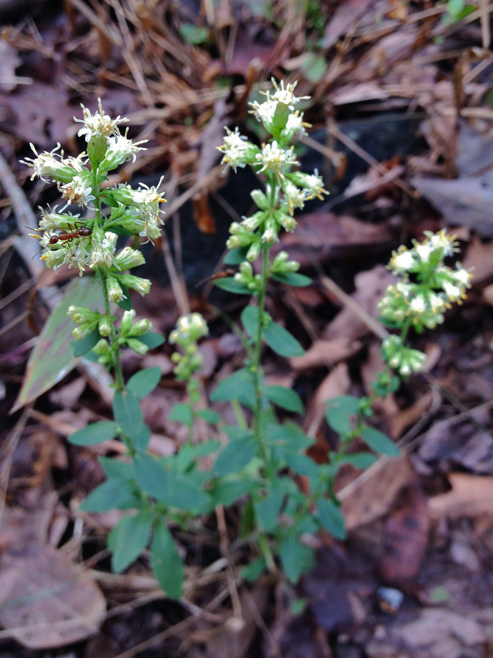 Photo of Solidago bicolor in flower. This is a native plant growing wild in the C & O Canal National Historical Park, Montgomery county Maryland, USA. This species is a member of the Asteraceae family.